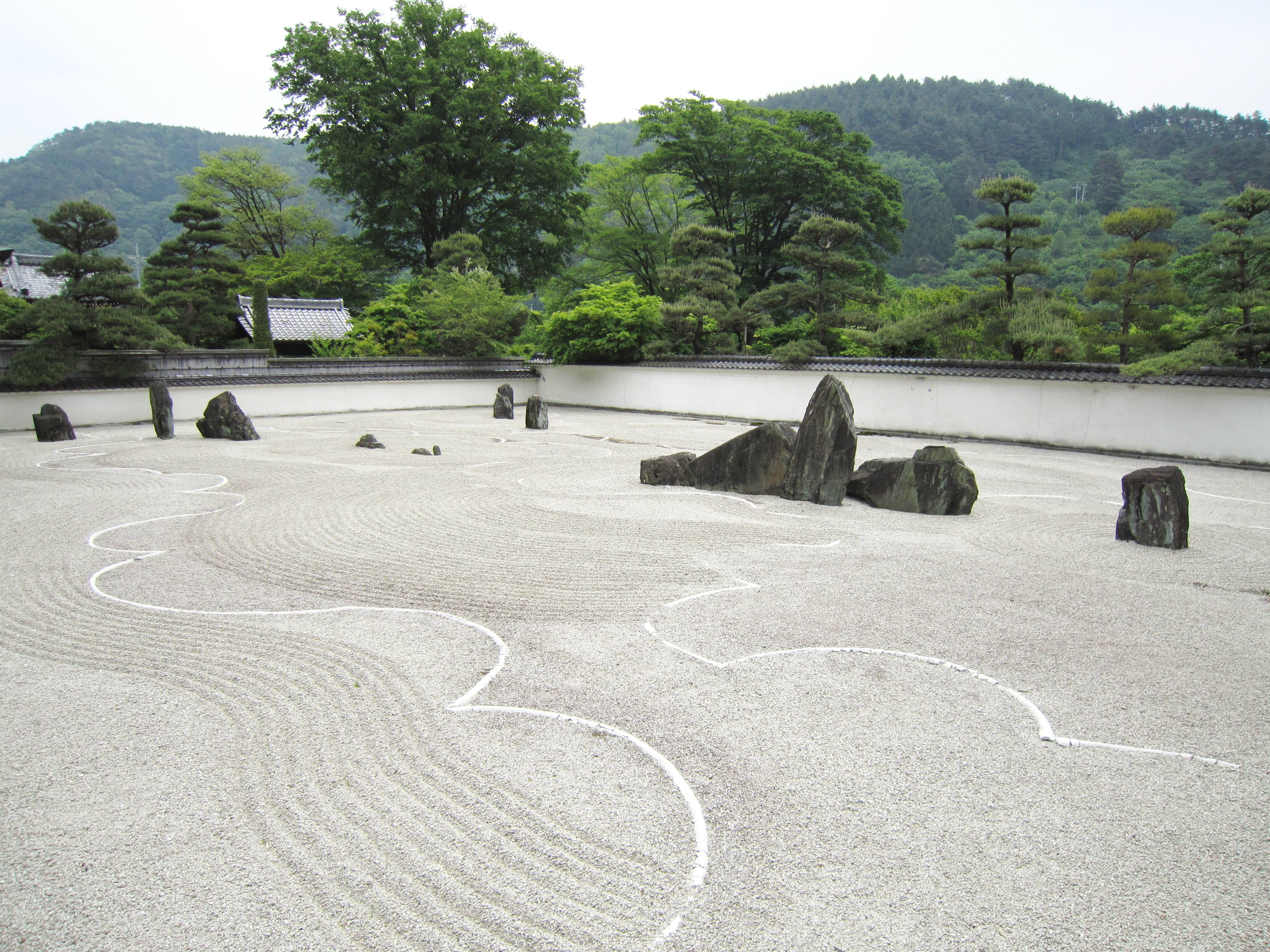 Kōzenji (Kiso town, Nagano) Kan-un-tei.